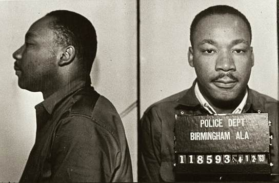 Mugshot of Martin Luther King Jr following his 1963 arrest in Birmingham